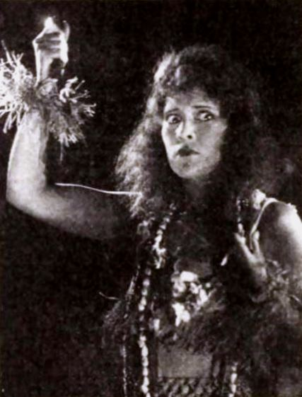 Still from the American drama film The Adorable Savage (1920) with Edith Roberts, on page 87 of the September 18, 1920 Exhibitors Herald.